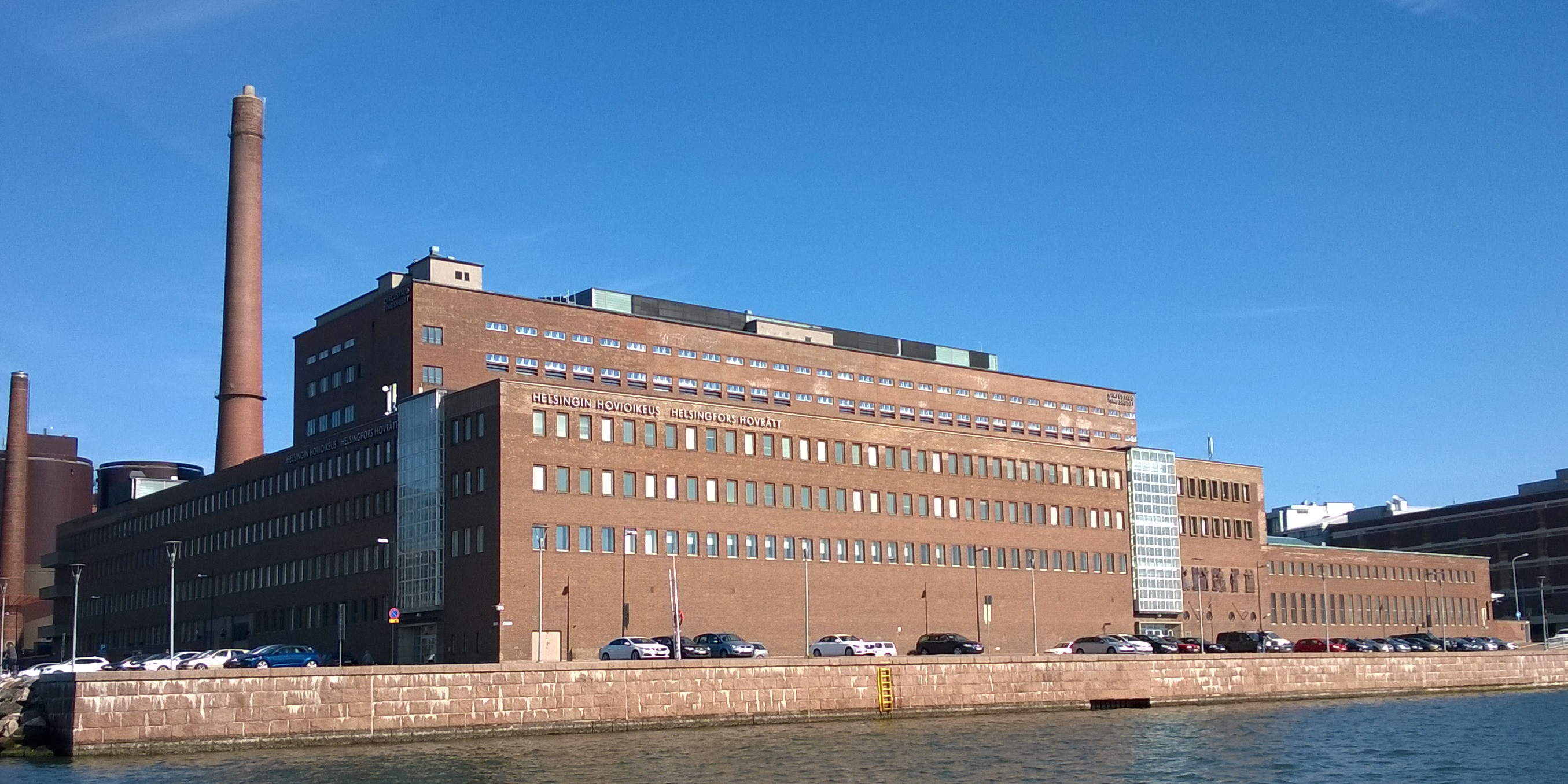 Helsinki Court of Appeal. Former headquarters of the Finnish alcohol monopoly Oy Alko Ab.